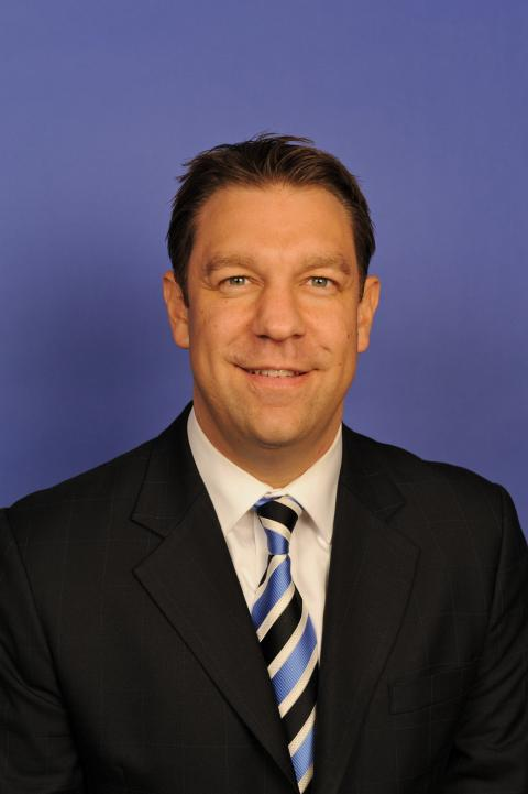 Rep. Trey Radel